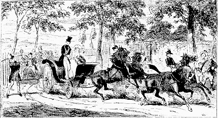 Edward Oxford attempts to assassinate Queen Victoria.